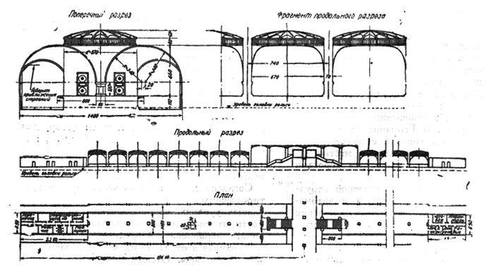 Plan of the Sokol metro station.